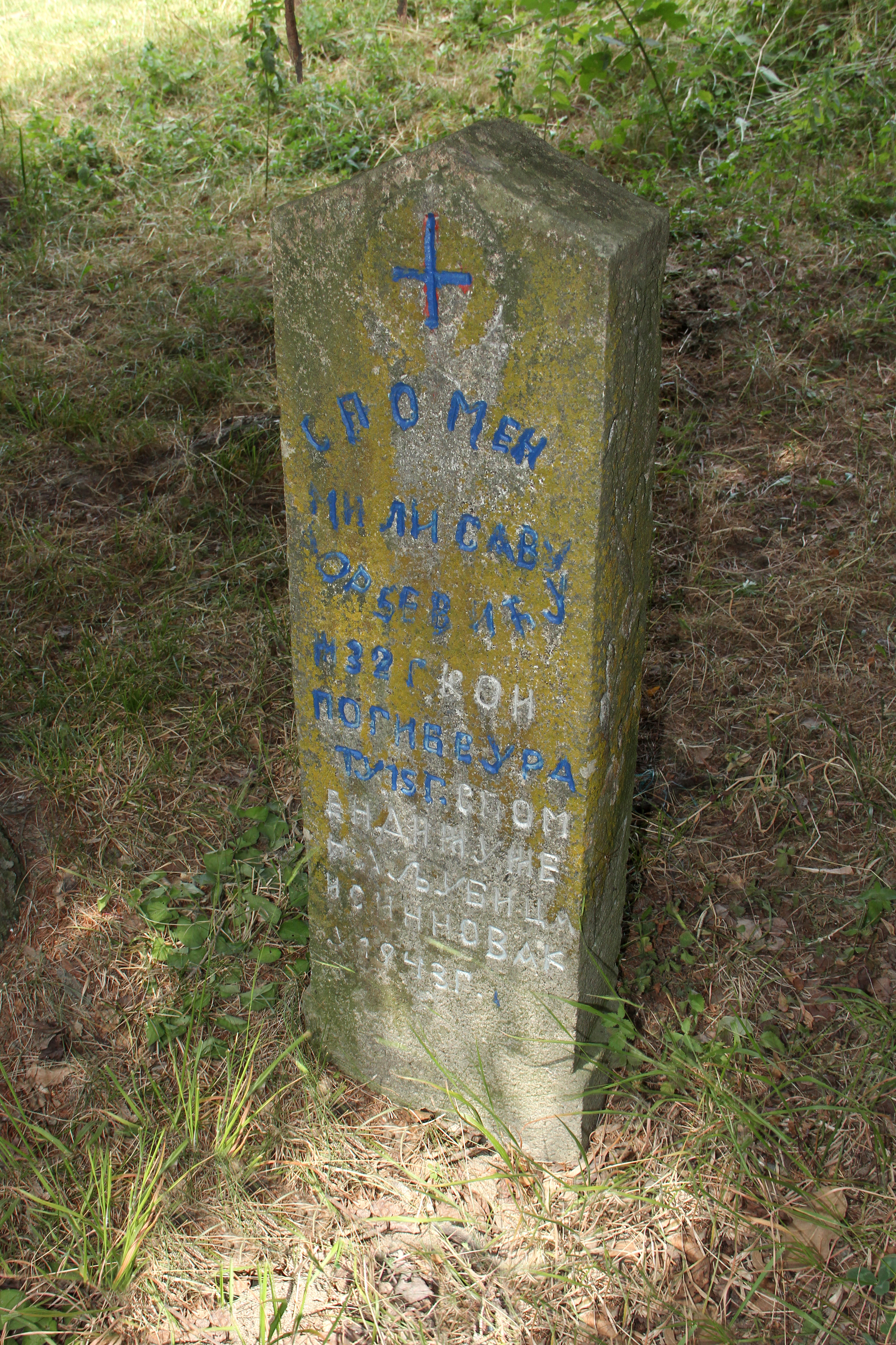 Roadside tombstone erected in memory of Milisav Djordjevic. It is located in the village of Gornja Crnuca (municipality of Gornji Milanovac), Serbia.